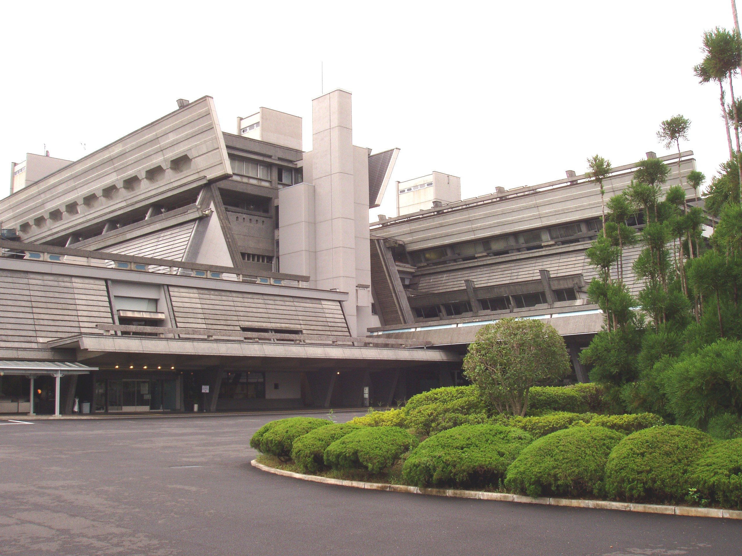 Kyoto International Conference Center, Kyoto, Japan - exterior of main hall.